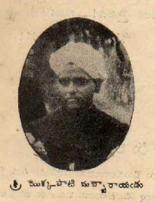 He was the diwan of Pithapuram Raja Rao Venkata Kumara Mahipathi Surya Rao. A scholar and Administrator.